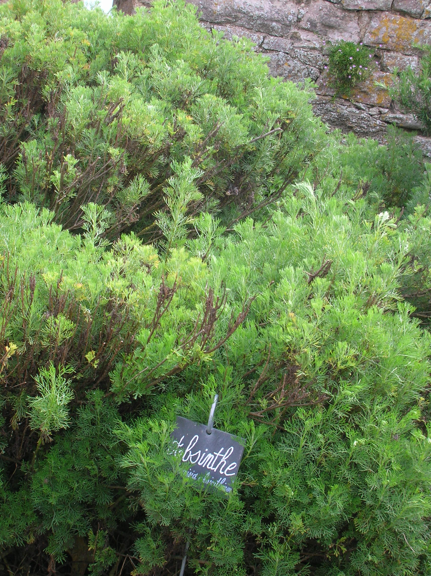 Artemisia absinthium